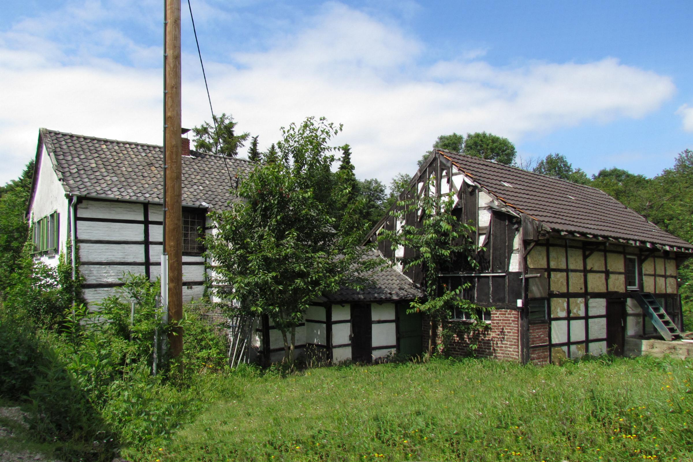 This is a photograph of an architectural monument.